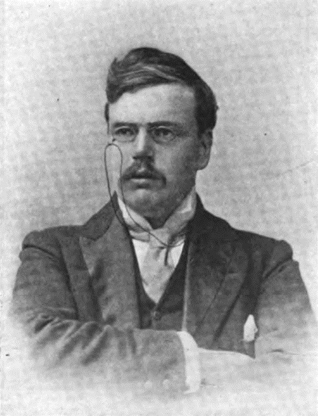 Photograph of Gilbert Keith Chesterton